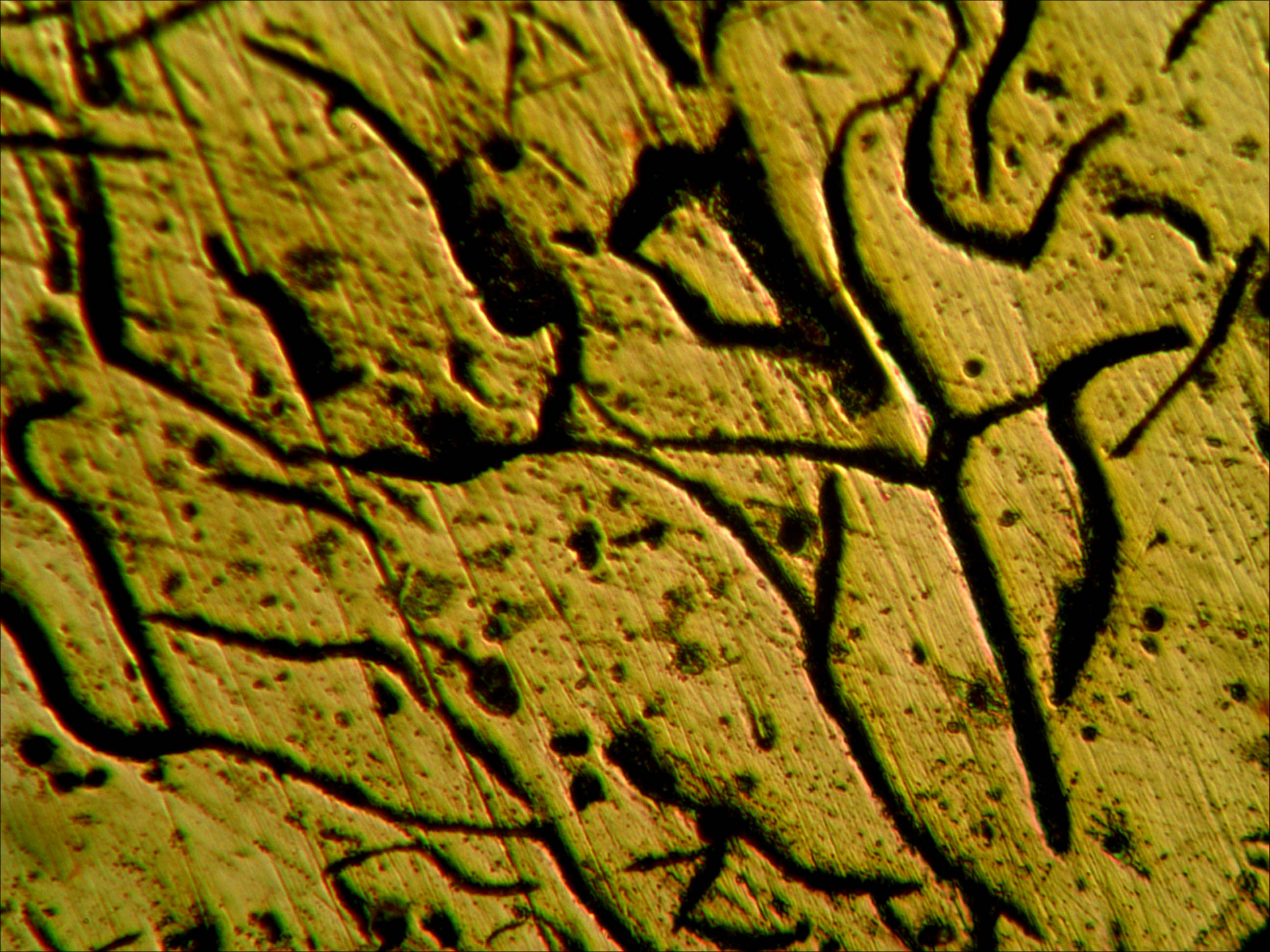 Microstructure of grey cast iron